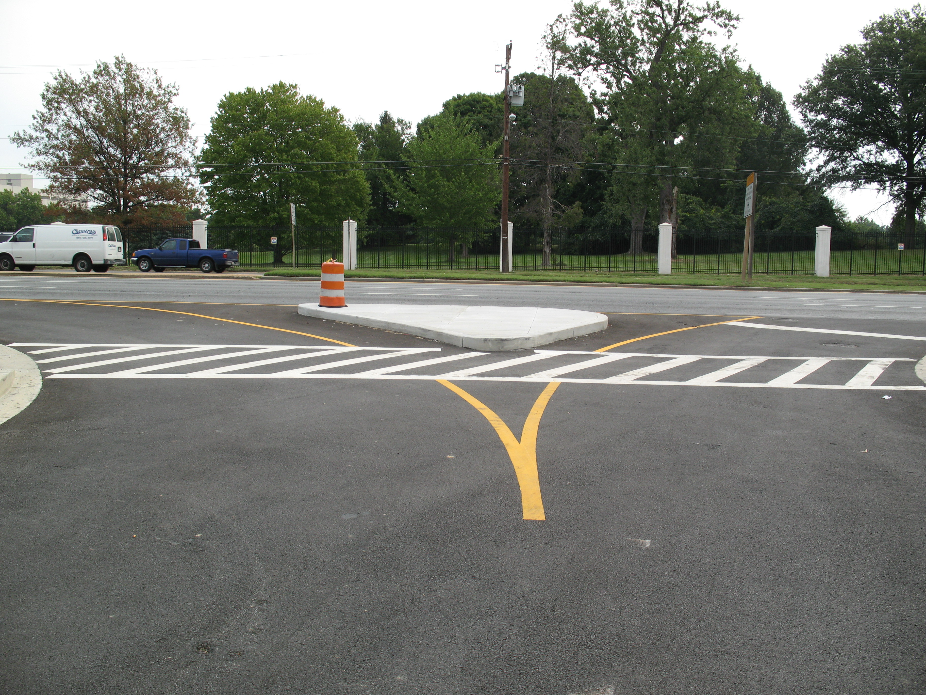 The visitor's access to the National Institutes of Health, located along MD 355 in Bethesda, MD. The edgeline marking along MD 355 has been incorrectly applied as yellow instead of white.